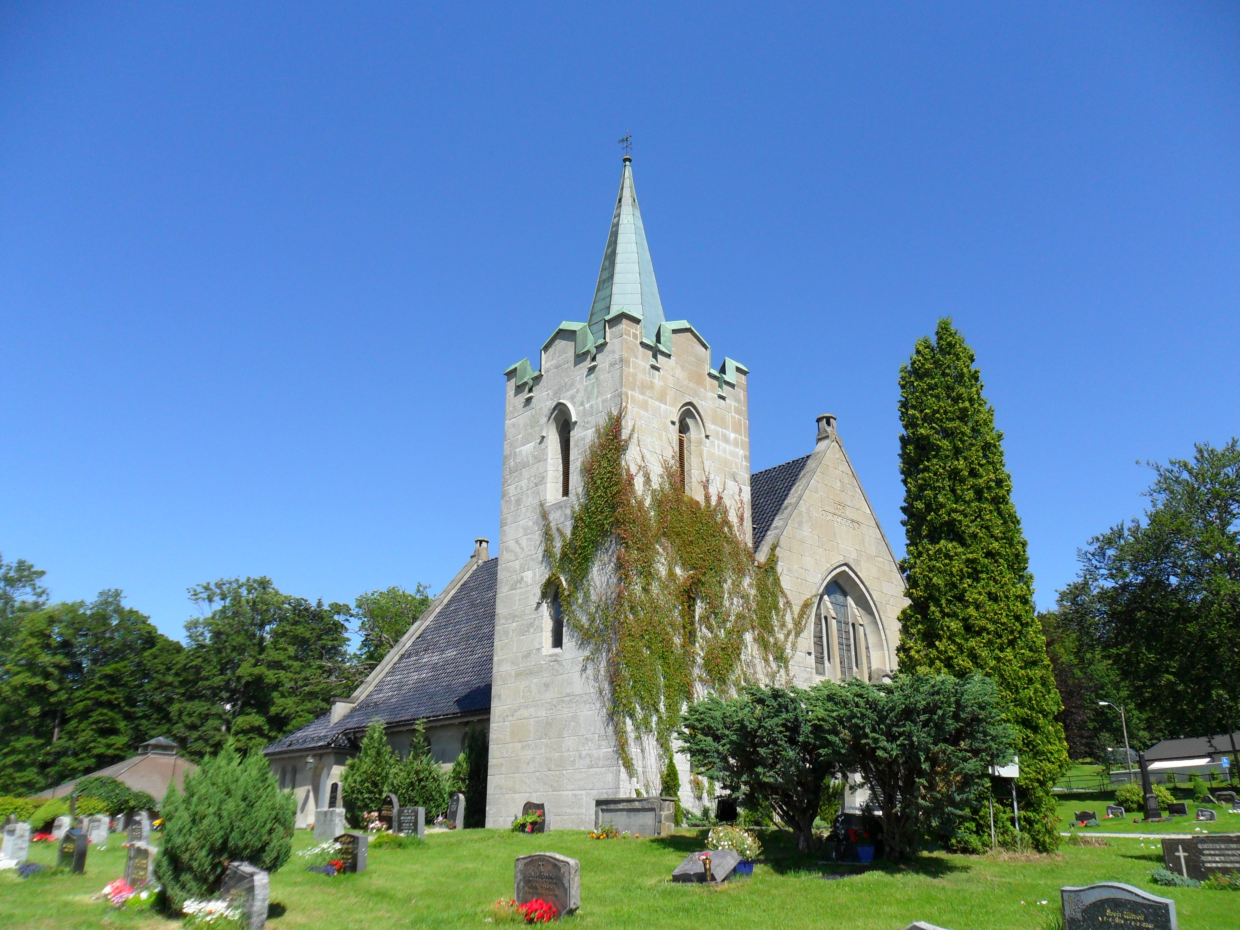 Borgestad church in Skien county, Telemark, Norway